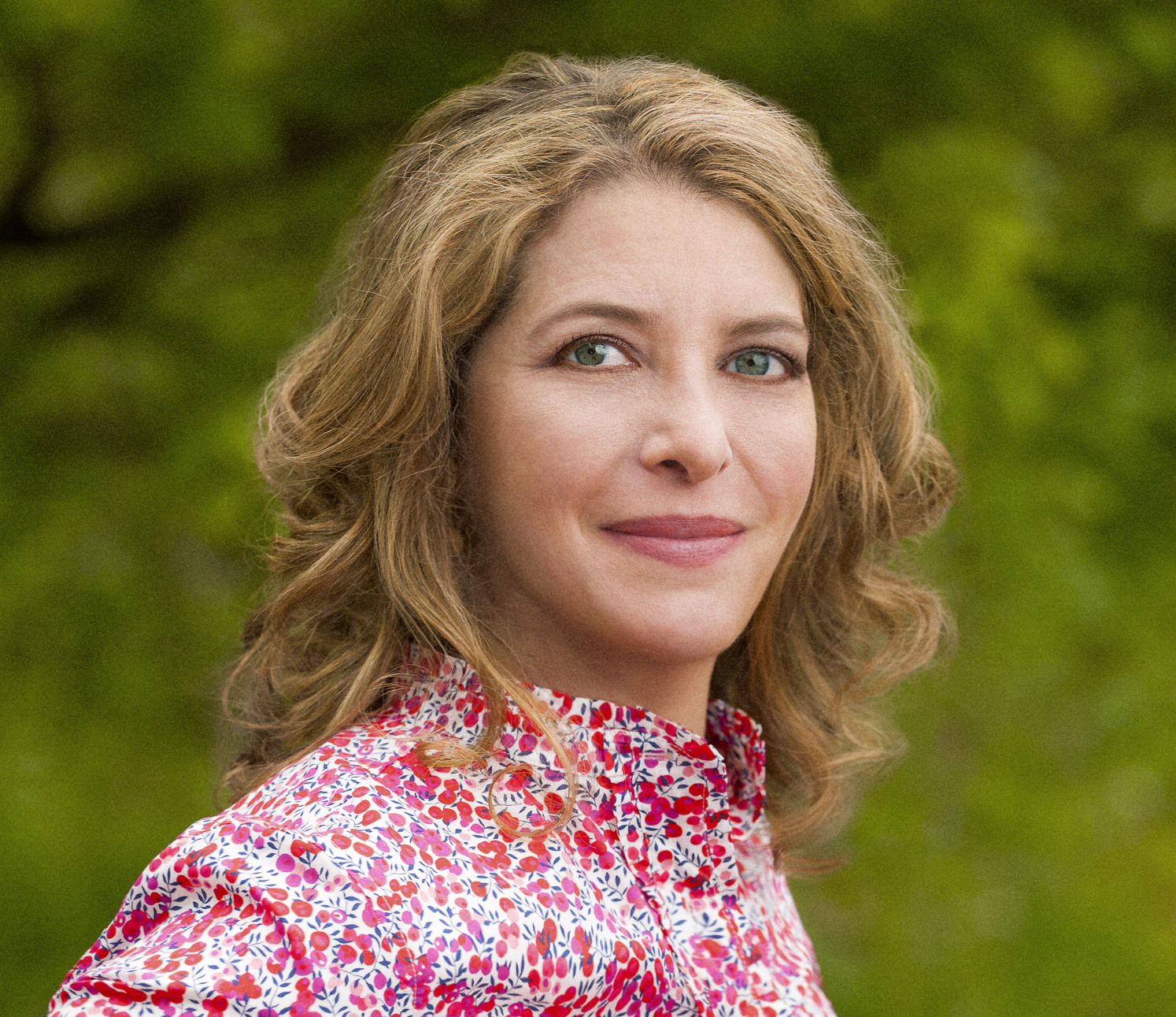 Head shot of Nina Teicholz